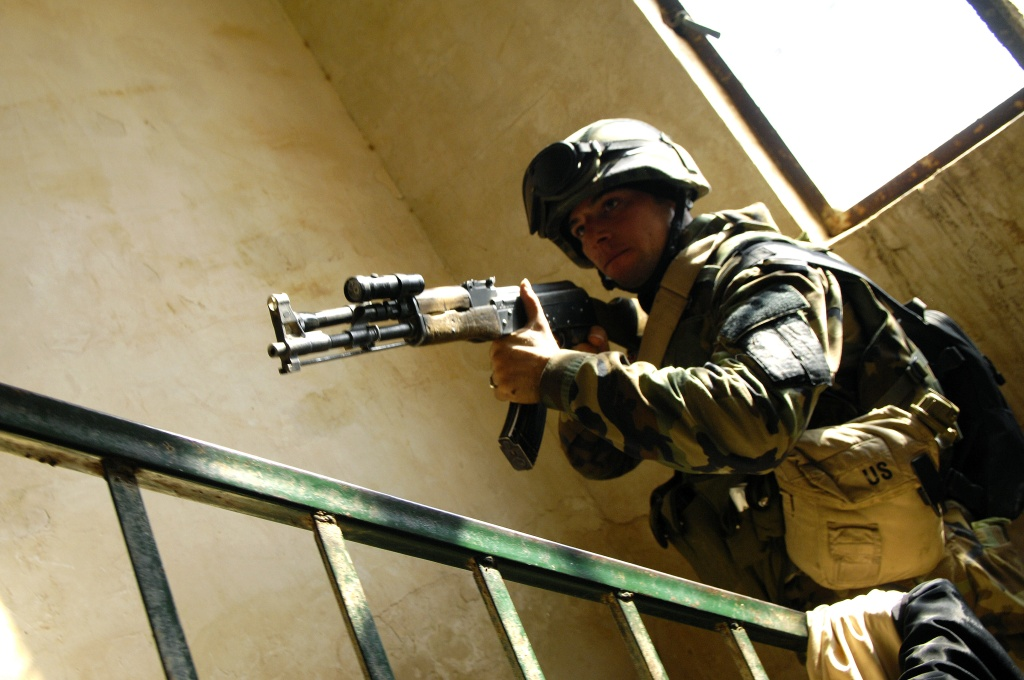 During Operation Iron Hammer, Iraqi Soldiers from the Emergency Service Unit, conduct a cordon and knock through the Village of in Al Kahn, Kirkuk, Iraq, on Nov. 11, 2007.(U.S. Air Force Photo by Staff Sgt. Samuel Bendet) Since this is USAF Image no "copyright" applies.